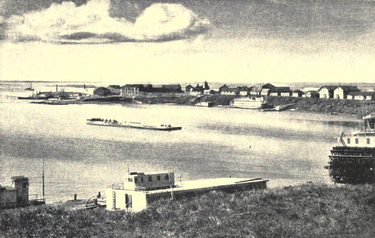 View of St. Michael, Alaska showing houses and steamboats, circa 1908.